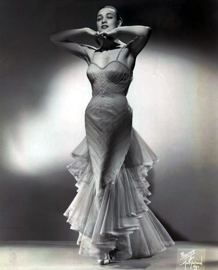 Photo of actress/singer Julie Wilson.